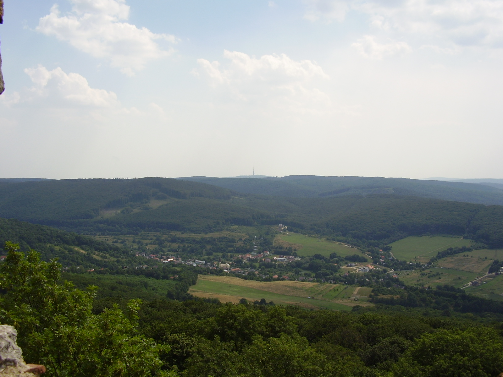 Borinka, Slovakia - sight from the Pajstun castle; the Kamzík TV Tower is visible on the horizont